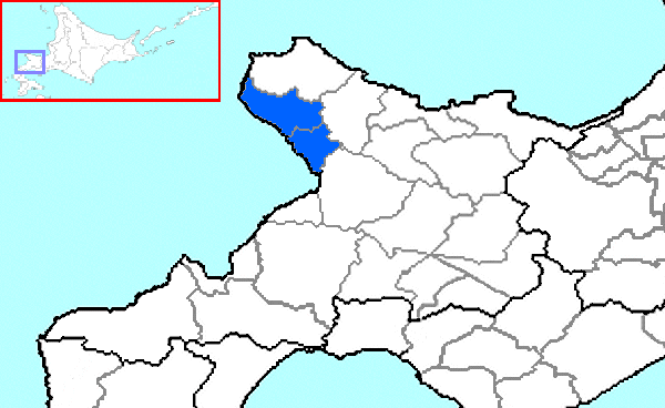 The location of Furuu District in Shiribeshi Subprefecture, Hokkaido Prefecture, Japan.